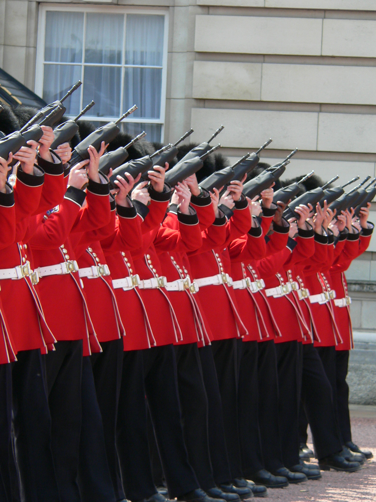 Trooping the colour